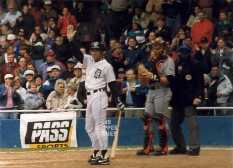 photo by Einar Einarsson Kvaran Alan Trammell